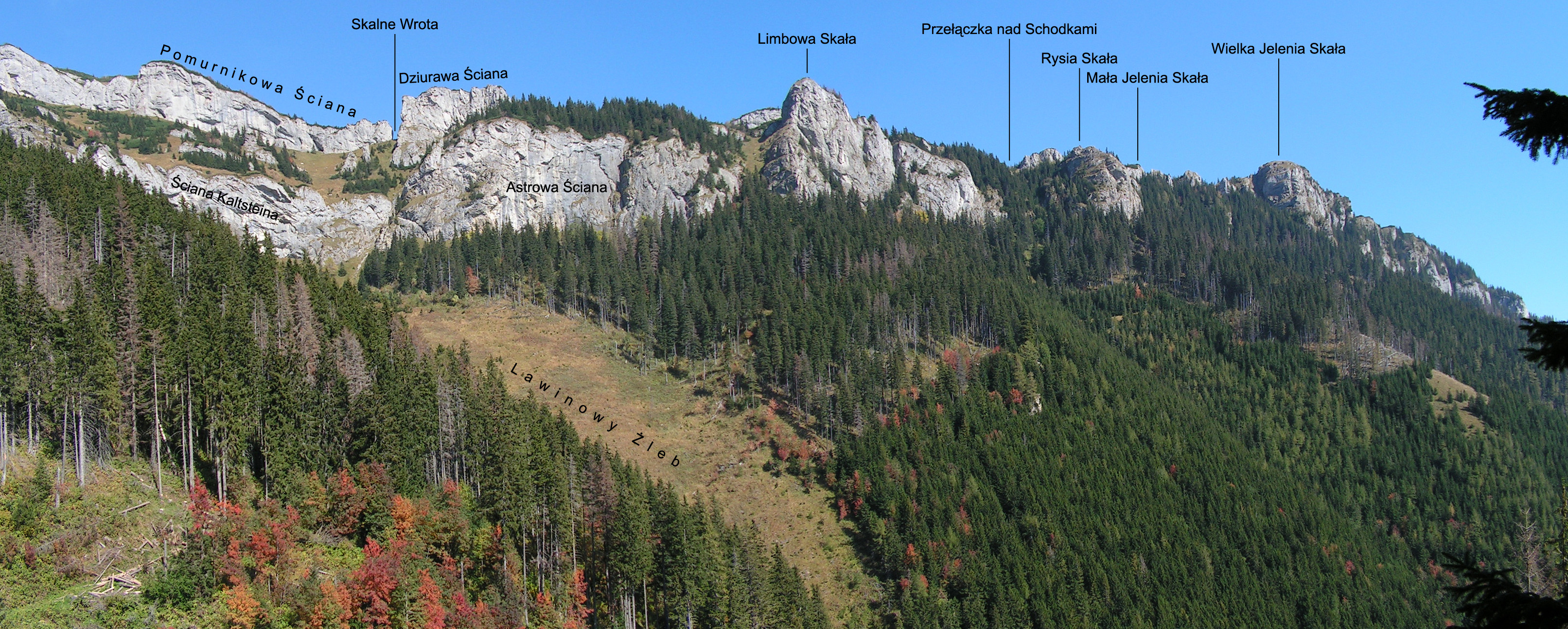 Skalné vráta and Kozí chrbát – view from Siedmich prameňov valley (Polish captions).